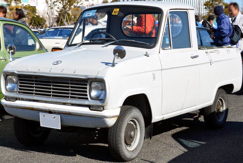 Mazda B360